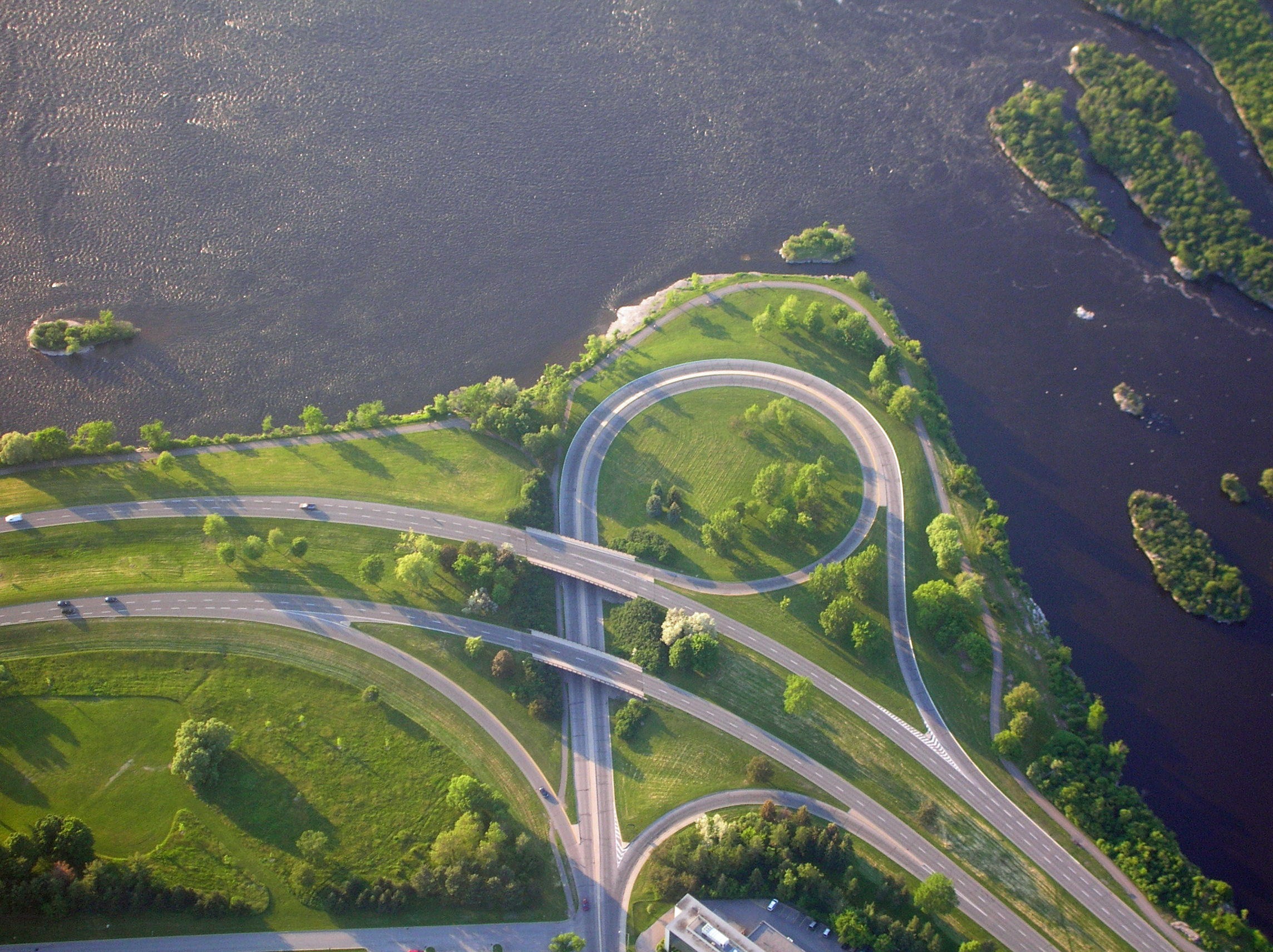 Road interchange of Ottawa River Parkway and Parkdale Ave at the Ottawa River in Ottawa, as seen during a hot air balloon ride